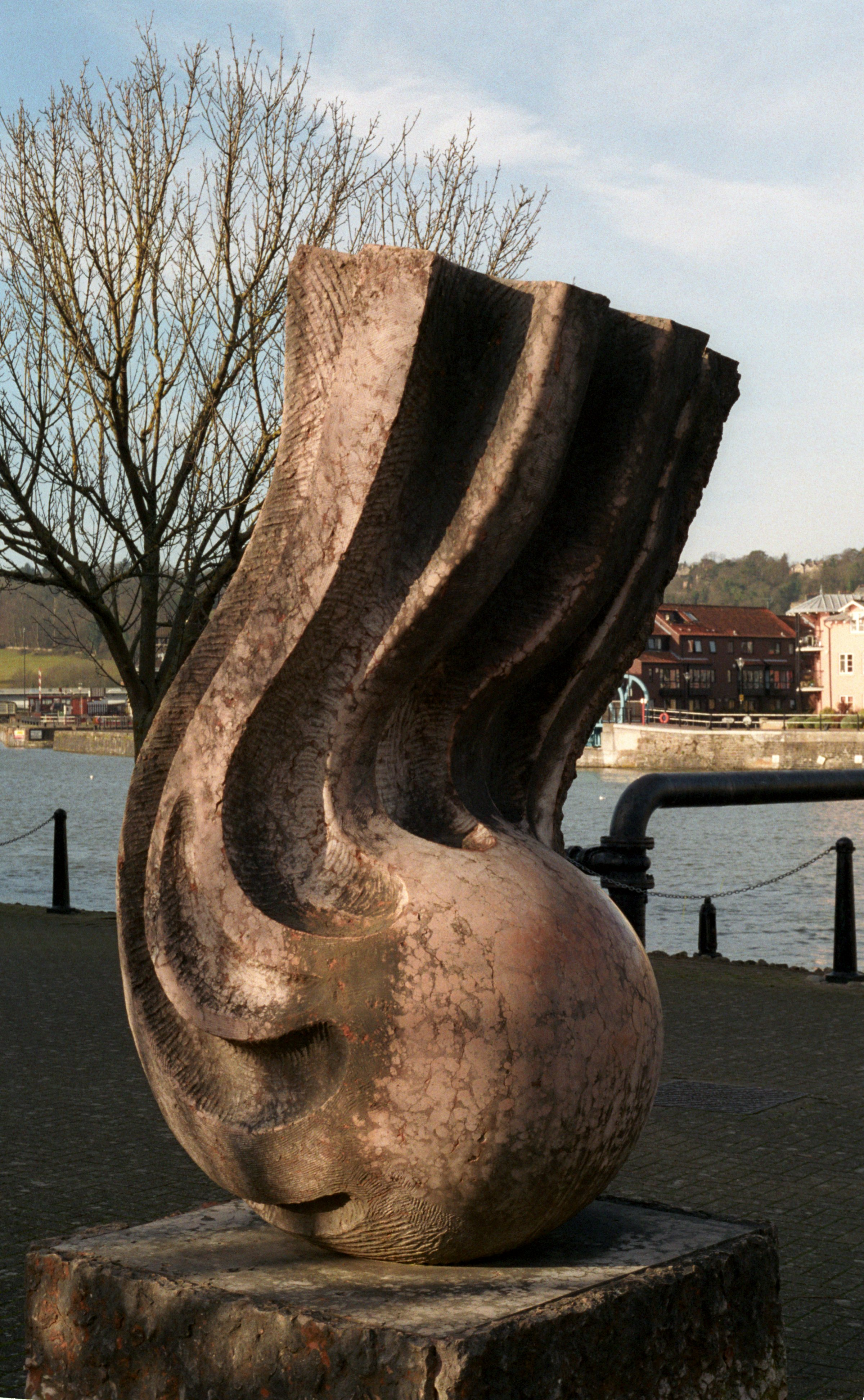 Atyeo (1986) by Stephen Cox, on the waterfront in Bristol. It is named for John Atyeo, Bristol City and England forward, who was the sculptor's boyhood hero.